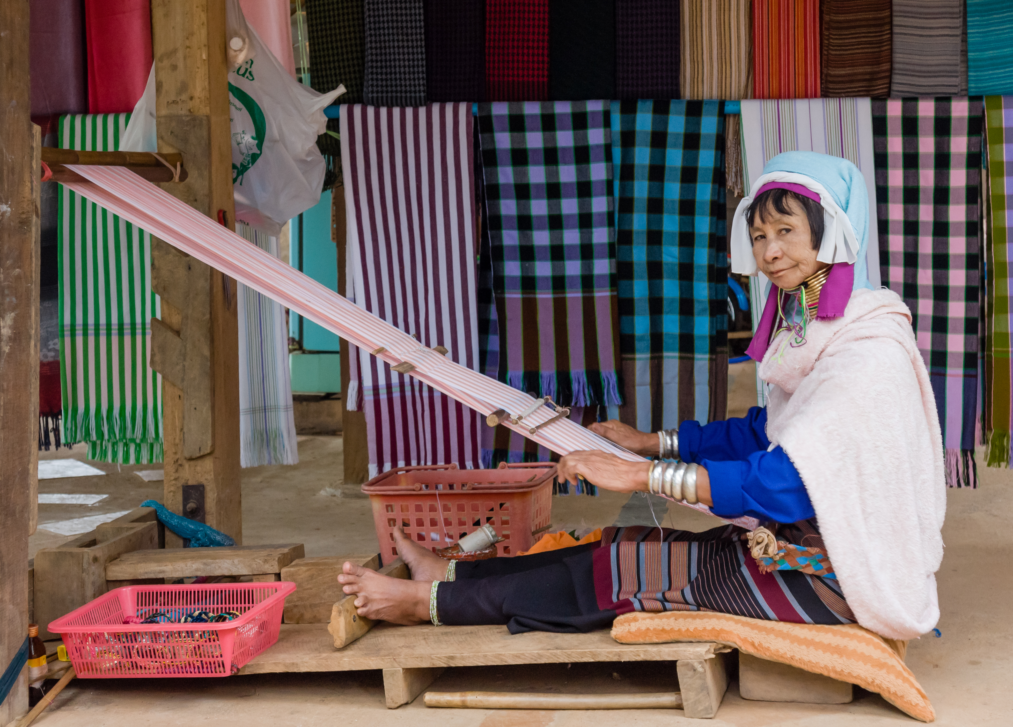 Tachileik, Myanmar: Woman of the Kayan people with decorative neck rings working at her loom.